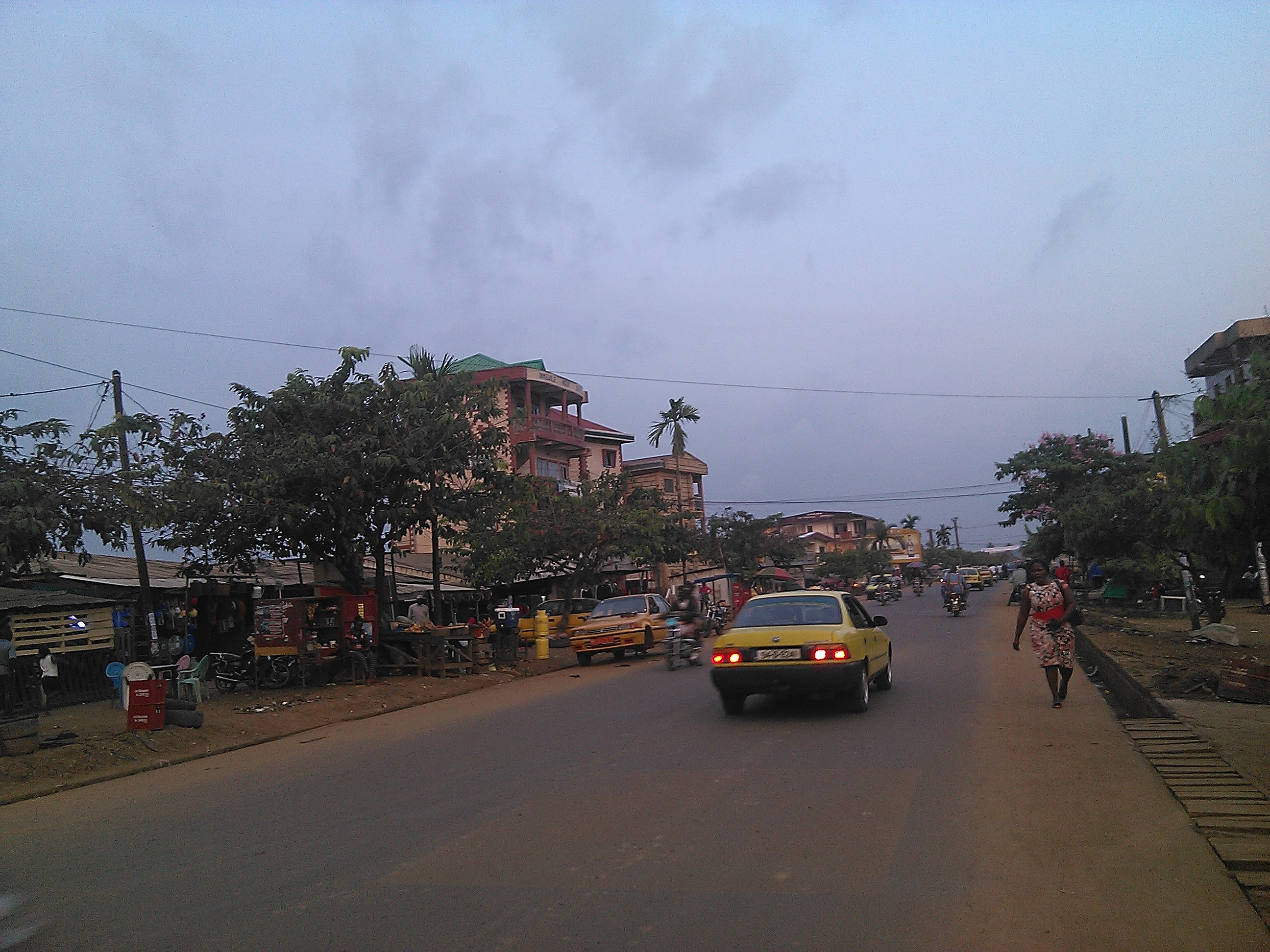 Main street in Kumba Fiango, direction of Mamfe